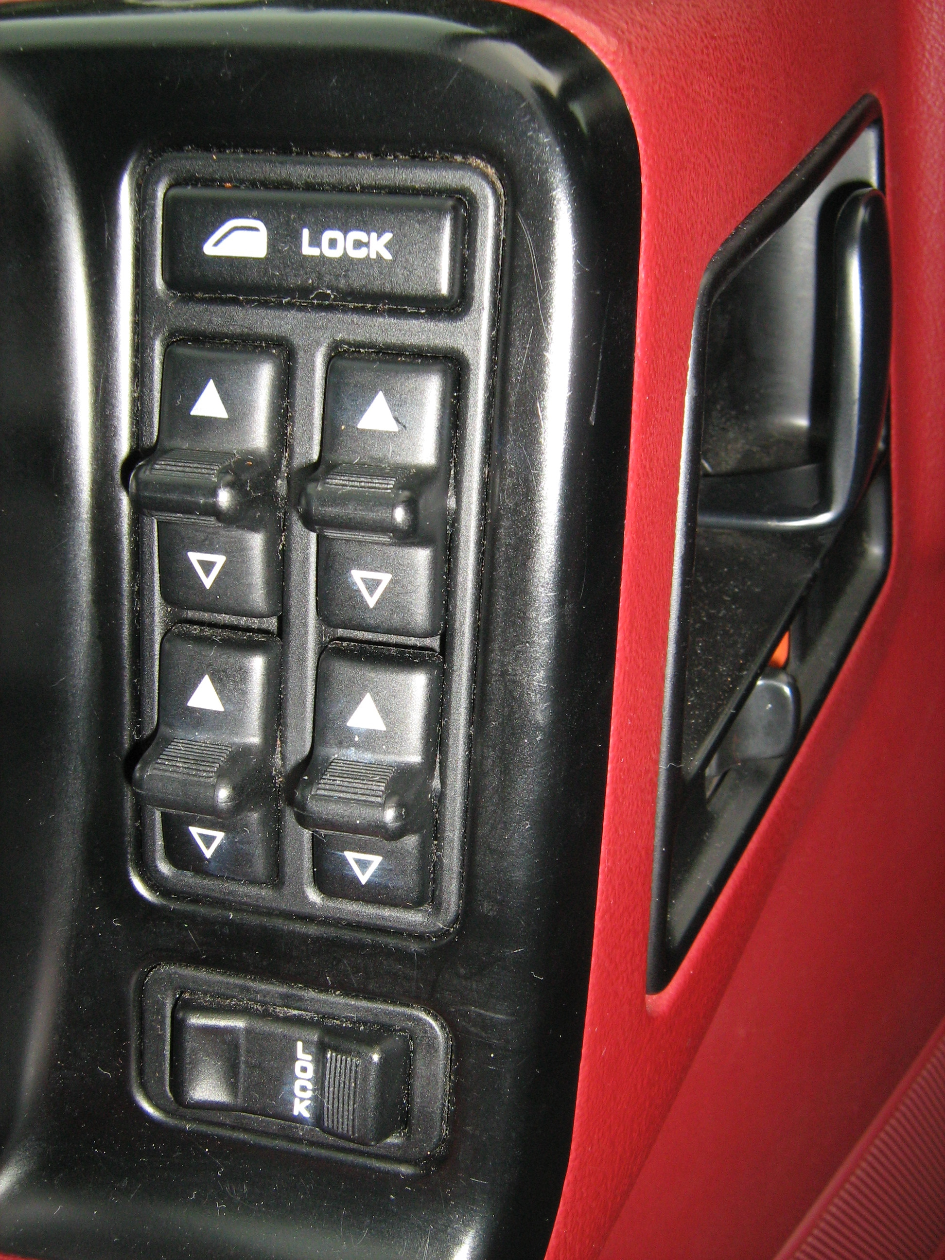 Power window controls mounted on the driver's door in a 1993 Jeep Grand Cherokee (ZJ). This luxurious sport utility (SUV) is finished in Metallic Blackberry (paint code: PM9), a deep burgundy. Equipment includes the Laredo 26F package and the Quadra-Trac full-time all-wheel drive. This is an early production ZJ model that was built in April 1992. The interior is in matching Crimson with cloth upholstery, that was only available at the start of the ZJ's production.